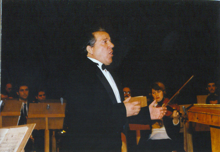 Gjergj Sulioti in a concert